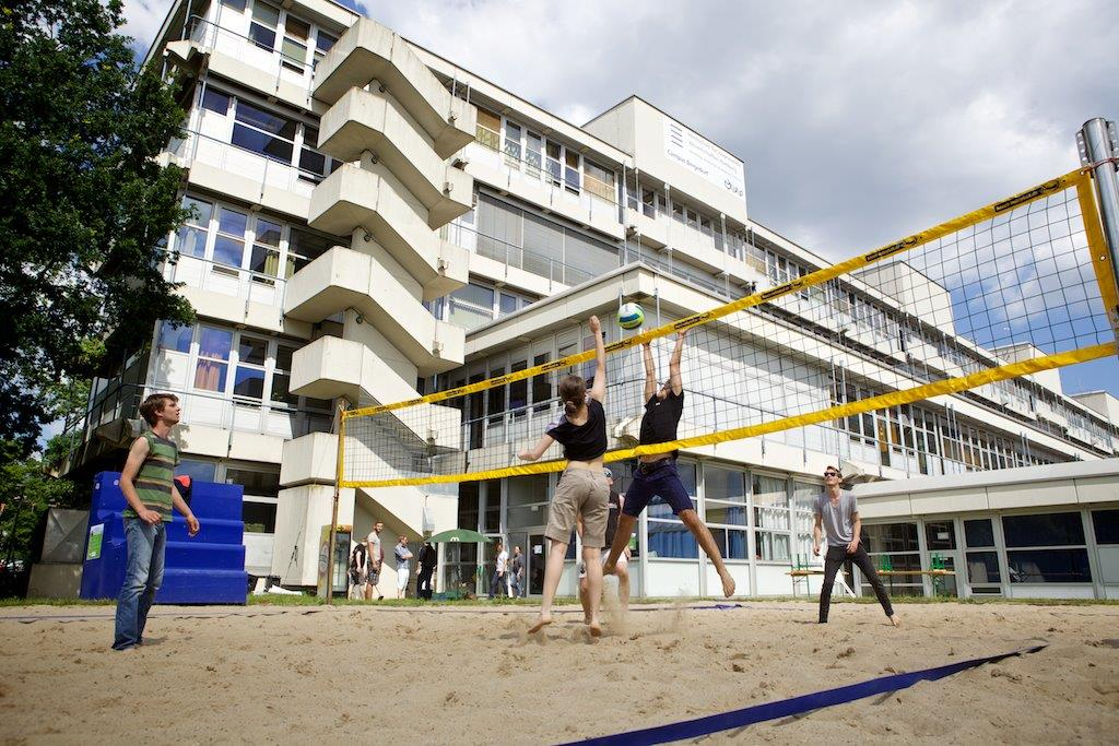 Campus Bergedorf